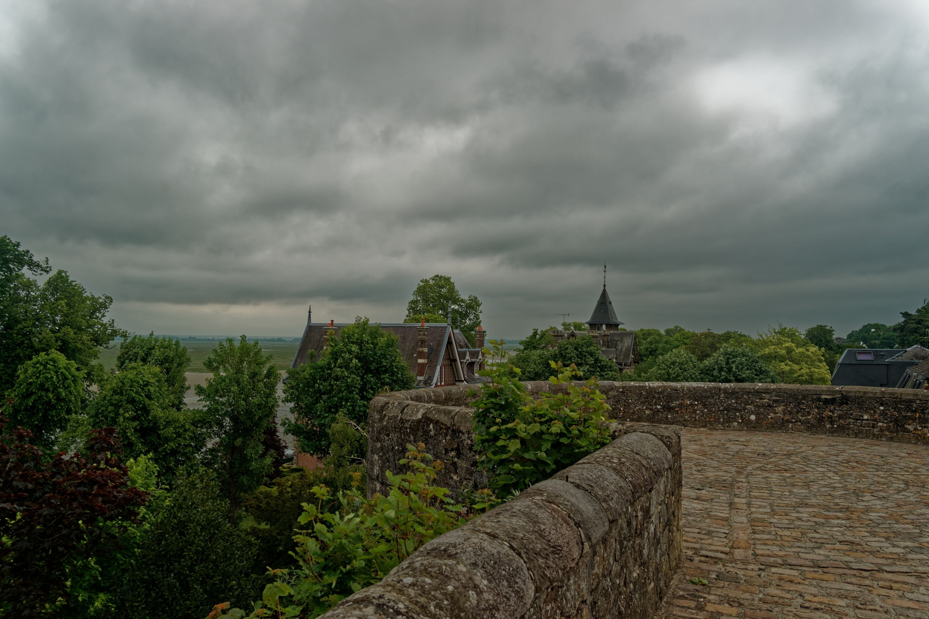 Saint-Valéry-sur-Somme - Les Remparts / Ramparts at Rue de la Porte de Nevers - View East